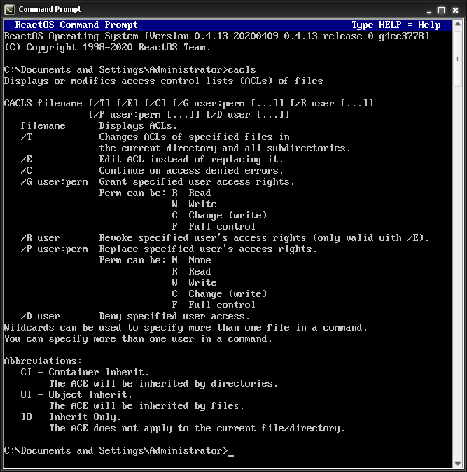 cacls command on ReactOS-0.4.13